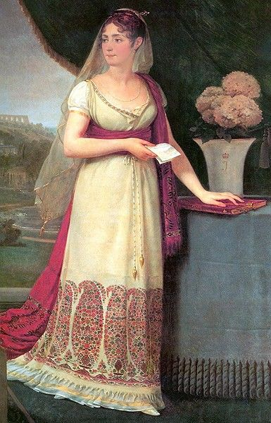 With hundreds of shawls at her disposal, Joséphine found creative uses for the precious textiles. Here she accessorizes a gown made of a shawl with another, contrasting shawl. Fashion magazines paid careful attention to her innovative attire, and reinterpreted it in fashion plates, ensuring that it had a widespread influence.